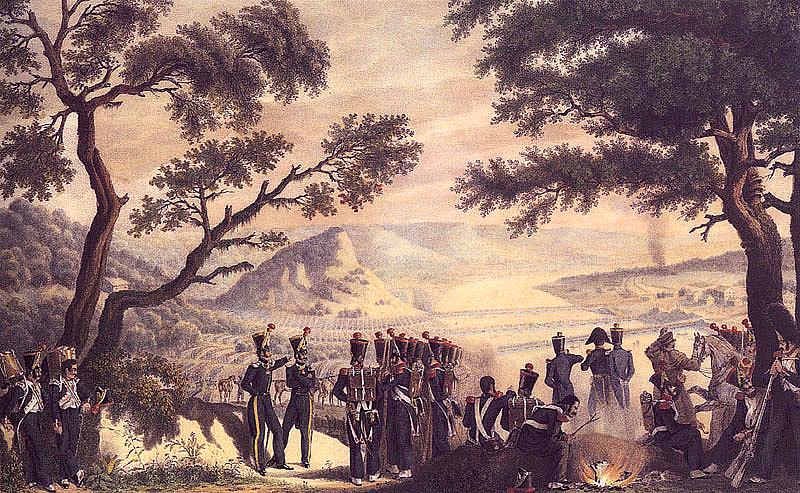 On the border of Nieman 1812